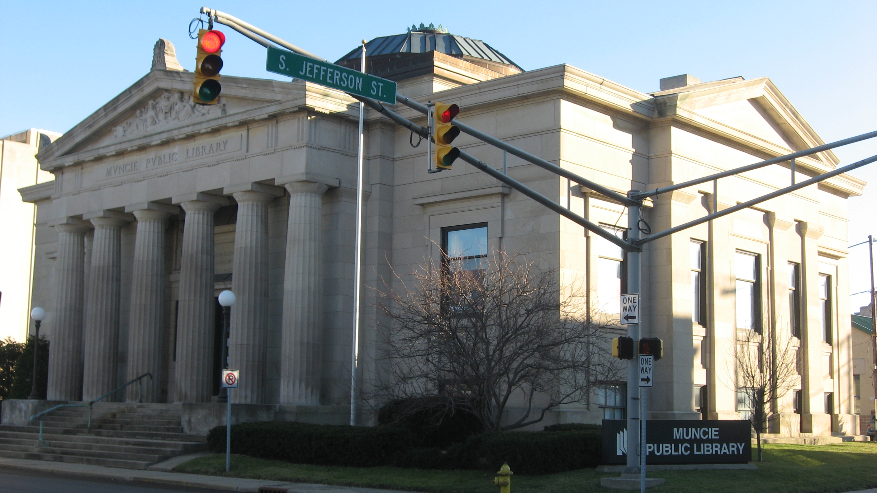 Front and western side of the Muncie Public Library, located at 301 E. Jackson Street in Muncie, Indiana, United States. A Carnegie library built in 1903, it is listed on the National Register of Historic Places.